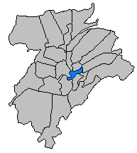 Map of Luxembourg City, Luxembourg, with the boundaries of the city's twenty-four quarters demarcated and the quarter of Grund highlighted in blue.